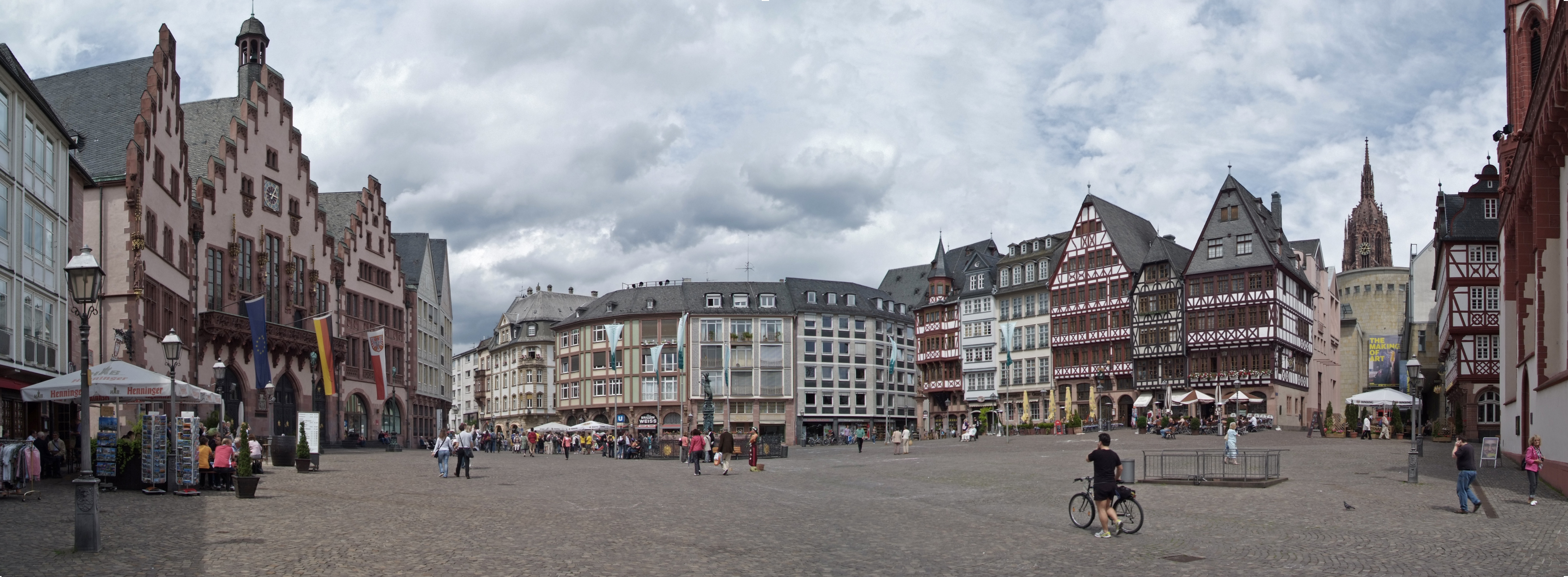 Panoramic of the Römerberg in Frankfurt am Main, June 2009